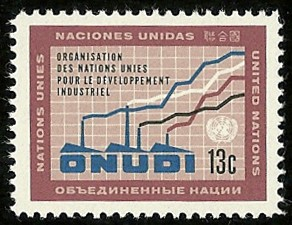 United Nations postage stamp: ONUDI (UNIDO - United Nations Industrial Development Organization)